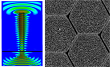 Image of 2D nanowire arrays; left: light field in a nanolaser.